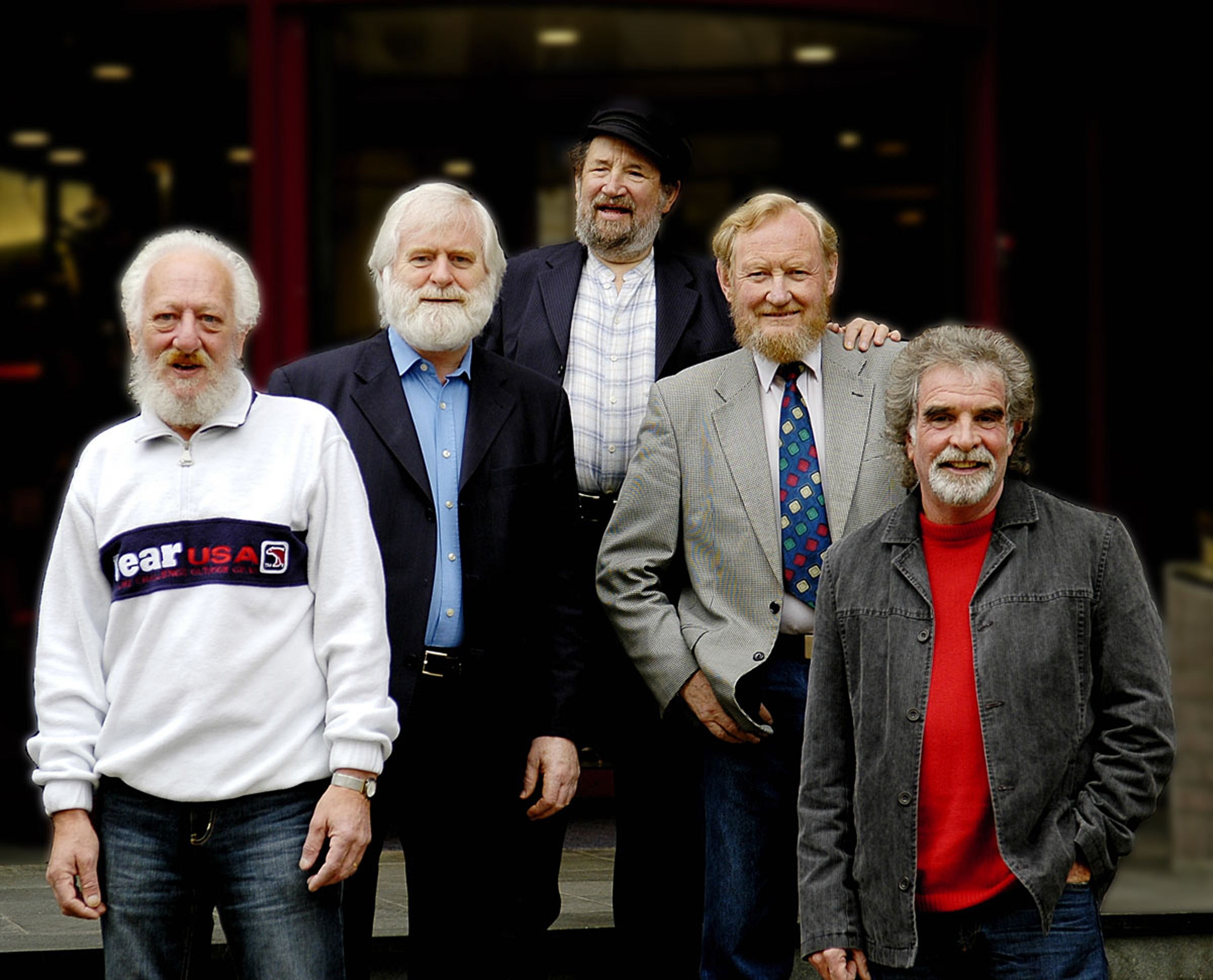 Photo subjects: The Dubliners, c. 2005. From left to right: Eamonn Campbell, John Sheahan, Barney McKenna, Séan Cannon and Patsy Watchorn.